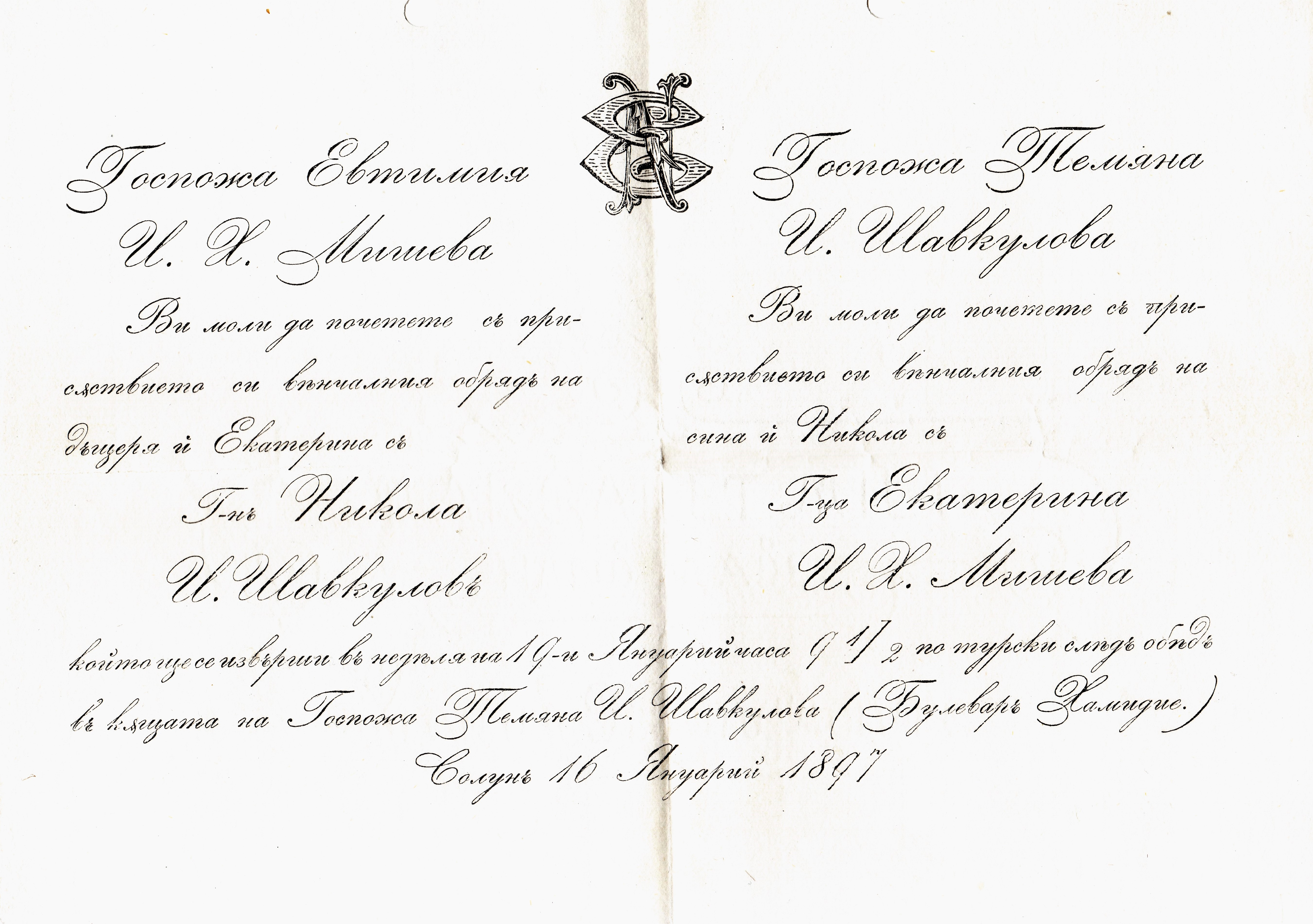 Nicola Chafcouloff Wedding Invitation